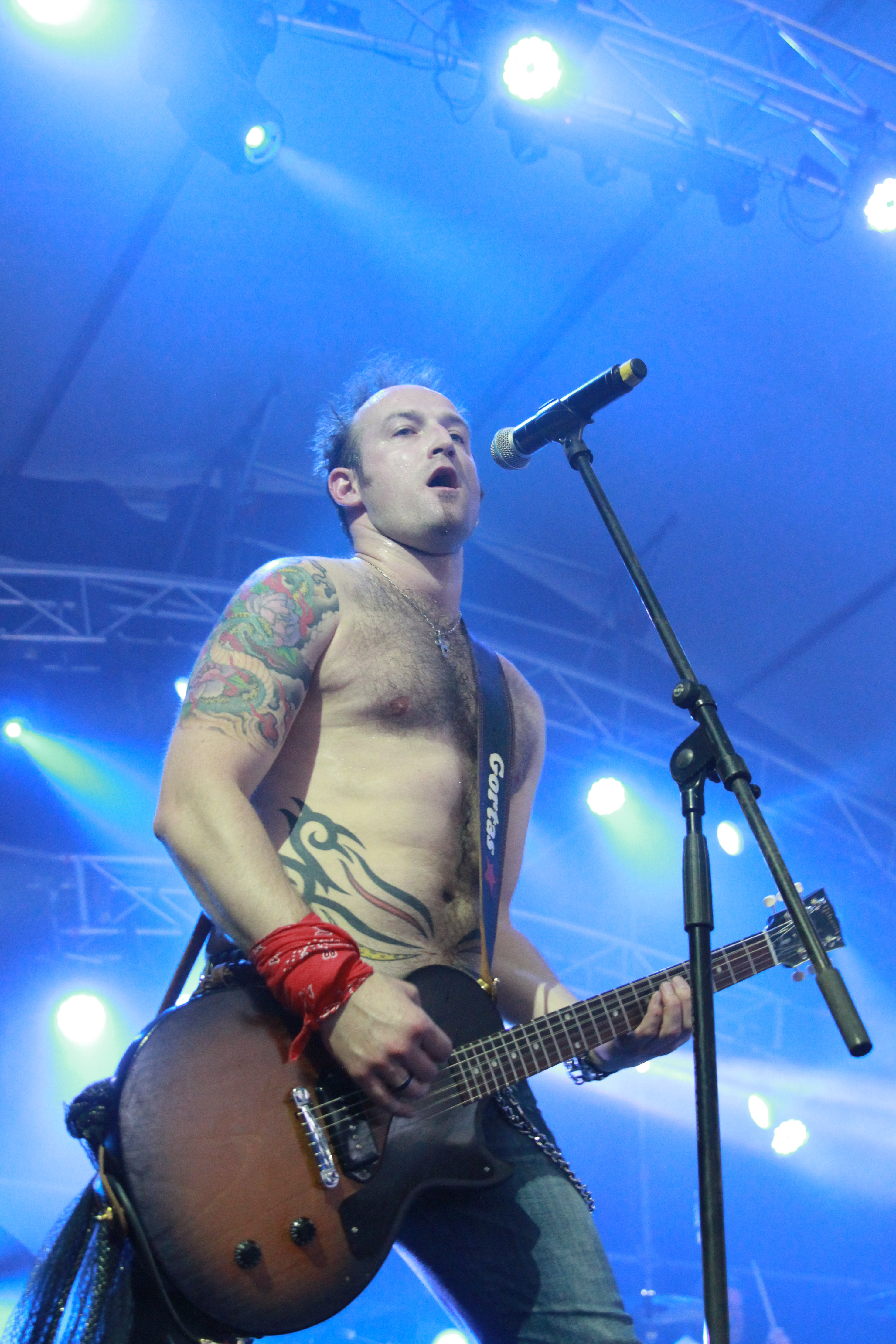 Przystanek Woodstock in 2015.